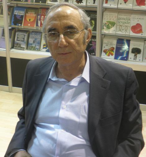 Ataol Behramoğlu, Turkish writer and poet.